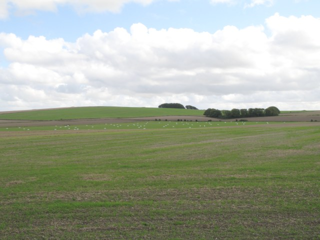 Roundway Down near Devizes, Wiltshire, England. Site of the Civil War battle of that name.